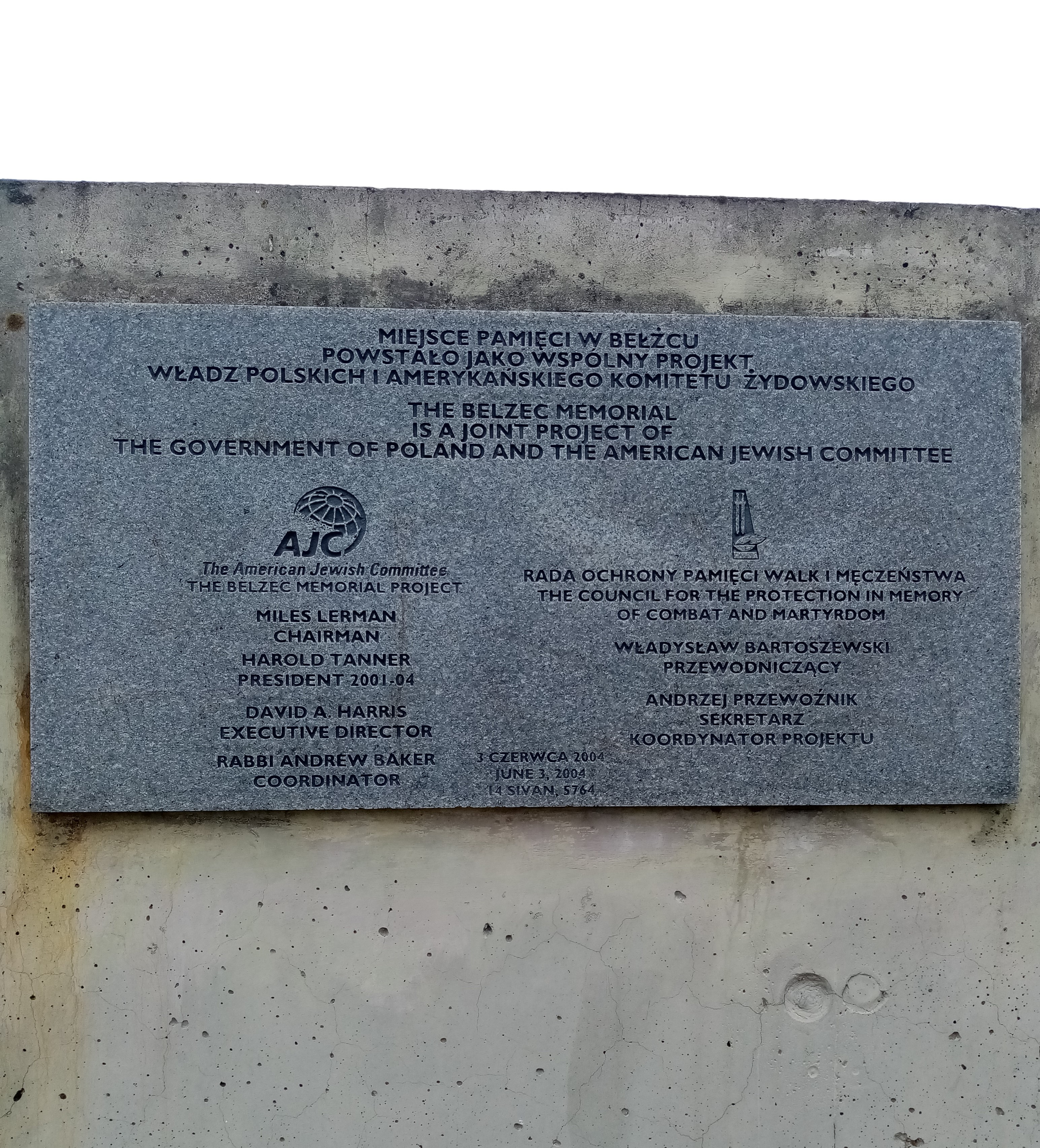 Museum and Memorial in Bełżec, commemorating victims of the Nazi-German extermination camp. Plaque near the entrance, commemorating founders of the Bełżec memorial: American Jewish Committee and the Polish Council for the Protection of Struggle and Martyrdom Sites.